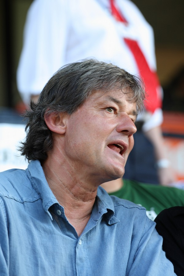 Dietmar Constantini during the UEFA Europa League second qualifying round match Rapid Wien vs. Vllaznia Shkodër